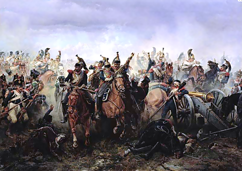 Battle of March 25, 1814 between the corps of Marshal of France Marmont and Marshal of France Mortier, numbering 30,000 people, and the Union army, heading for Paris. The French were defeated and forced to retreat, losing about 5,000 people and a lot of guns. It was the last battle in the north before the abdication of Napoleon from the throne.